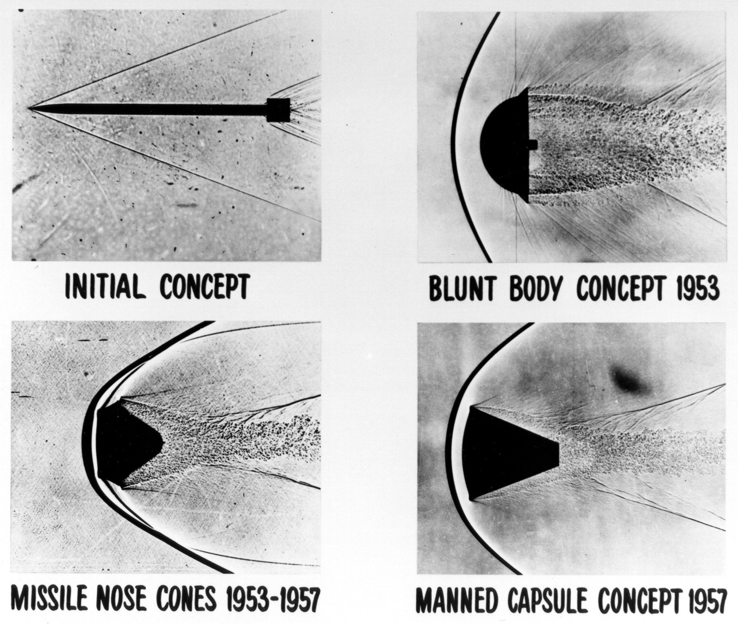 These four shadowgraph images represent early re-entry vehicle concepts. A shadowgraph is a process that makes visible the disturbances that occur in a fluid flow at high velocity, in which light passing through a flowing fluid is refracted by the density gradients in the fluid resulting in bright and dark areas on a screen placed behind the fluid. H. Julian Allen pioneered and developed the Blunt Body Theory which made possible the heat shield designs that were embodied in the Mercury, Gemini and Apollo space capsules, enabling astronauts to survive the firey re-entry into Earth's atmosphere. A blunt body produces a shockwave in front of the vehicle--visible in the photo--that actually shields the vehicle from excessive heating. As a result, blunt body vehicles can stay cooler than pointy, low drag vehicles.